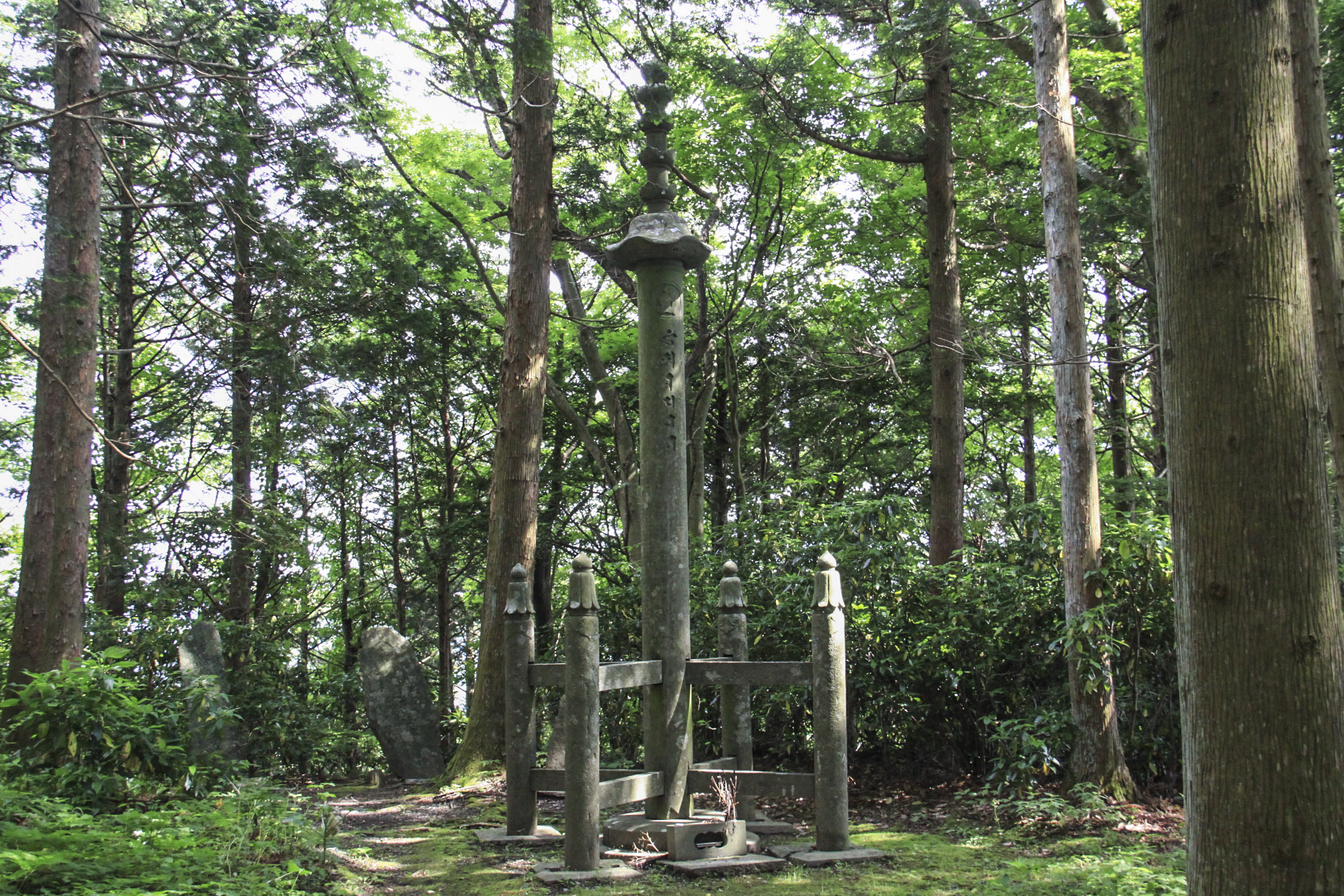 Hitsujisaki jinja Sourintou